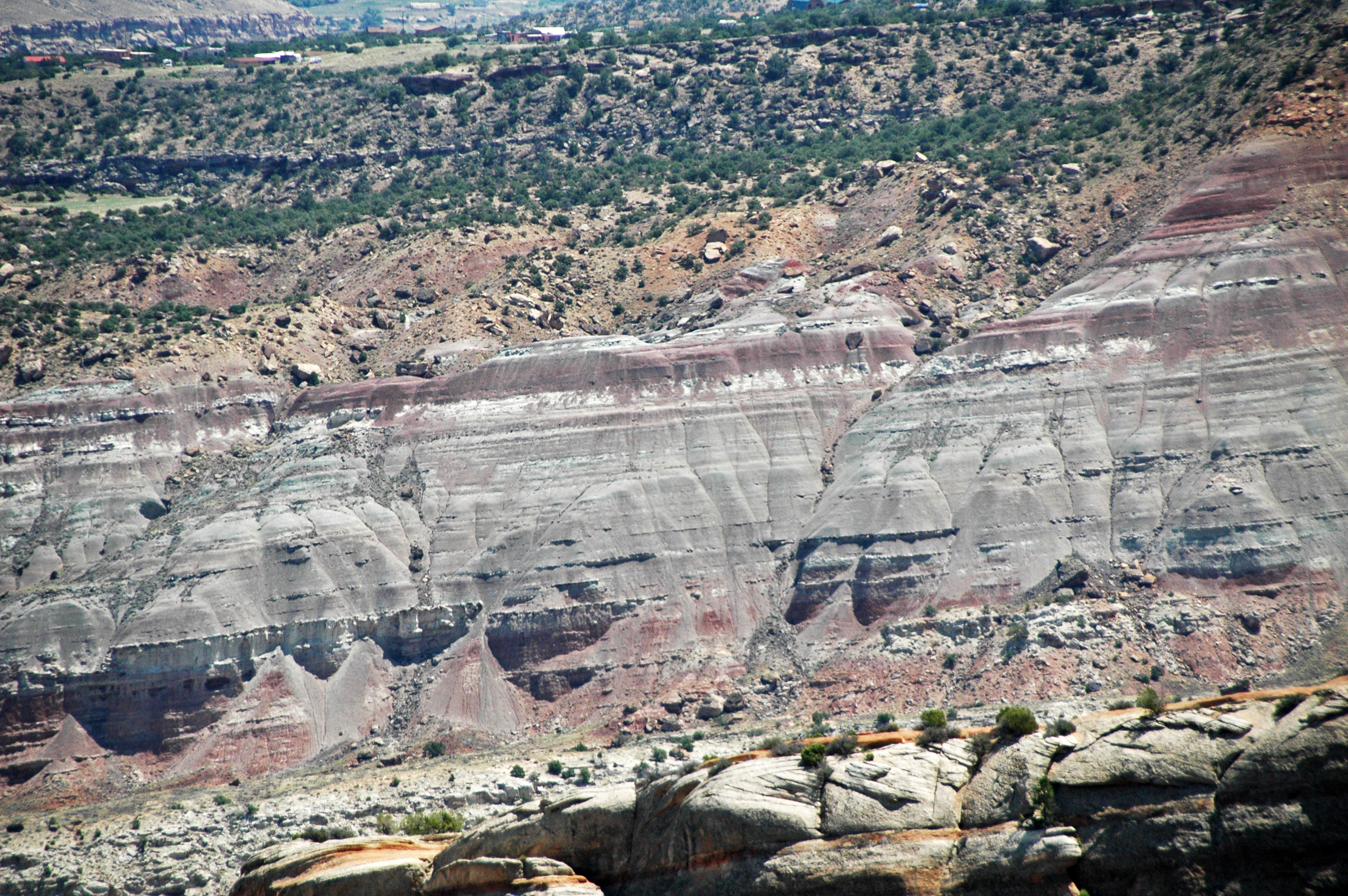 Colorado National Monument is a colorful and scenic park just southwest of the town of Grand Junction in western Colorado, USA. It's located in the northeastern part of the Colorado Plateau Physiographic Province, a large section of continental crust that was significant uplifted during the Cenozoic. The rocks in the park are gently folded into a large monocline that has been erosionally dissected into a series of dramatic canyons. The outcrop shown above is a shale-dominated slope of the Morrison Formation, an Upper Jurassic succession that is widely distributed in many western American states. The Morrison consists of fluvial (river/floodplain) and lacustrine (lake) deposits, plus reddish-colored paleosol horizons. Dinosaur bones and dinosaur tracks are moderately common in Morrison Formation sediments (exceptionally rich localities include Como Bluff in Wyoming, Dinosaur National Monument in Utah, Dinosaur Ridge in Colorado, and the Cleveland-Lloyd Quarry in Utah). Locality: No Thoroughfare Canyon, southeastern Colorado National Monument, southwest of the town of Grand Junction, west-central Mesa County, far-western Colorado, USA